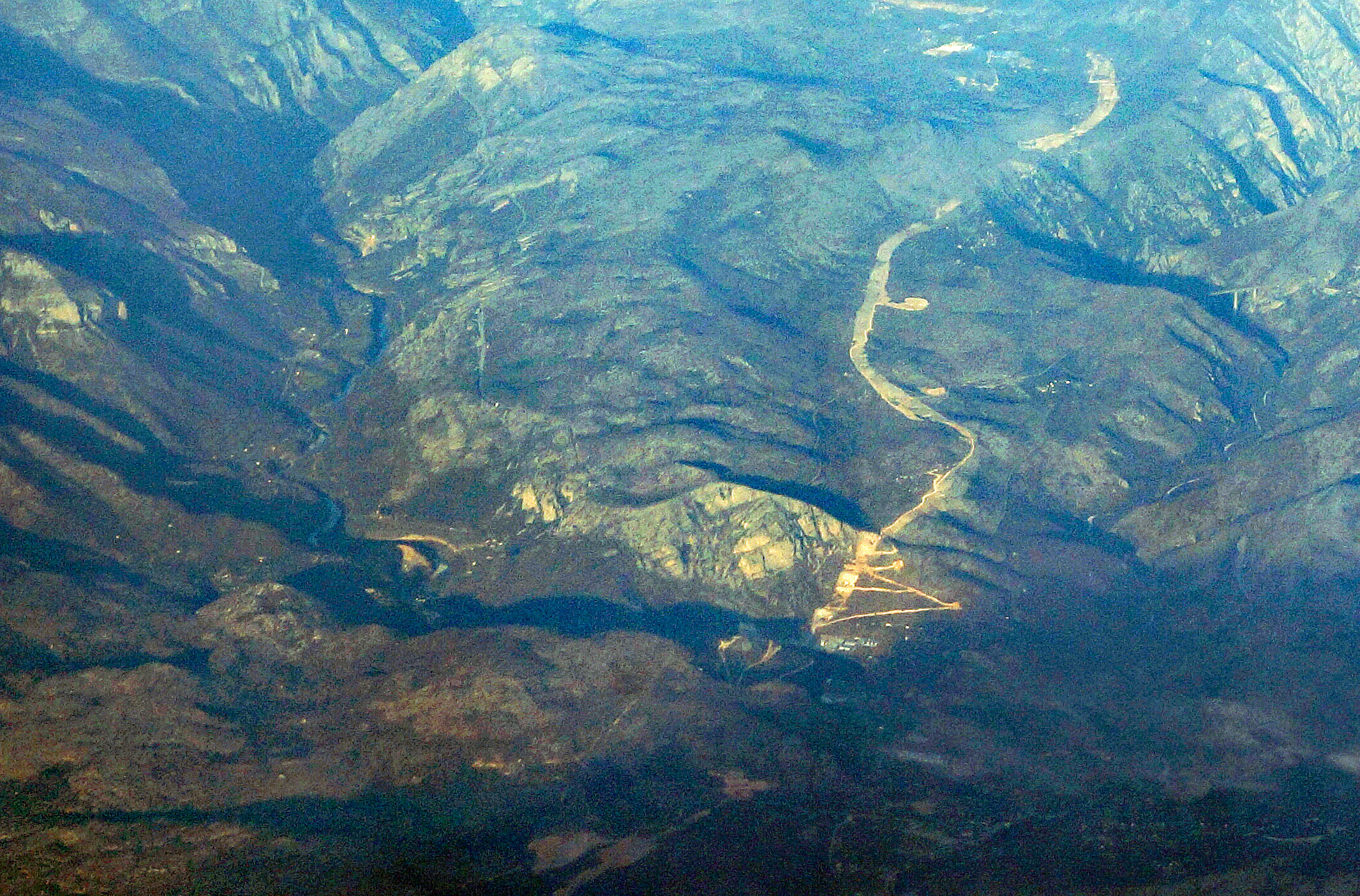 Construction site of Moračica bridge in Montenegro